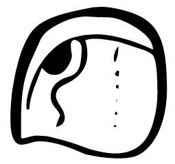 Maya:glyph:logogram:calendric:Tzolkin:Day17:Kaban:codex+W:v01. Img created by CJLL Wright.